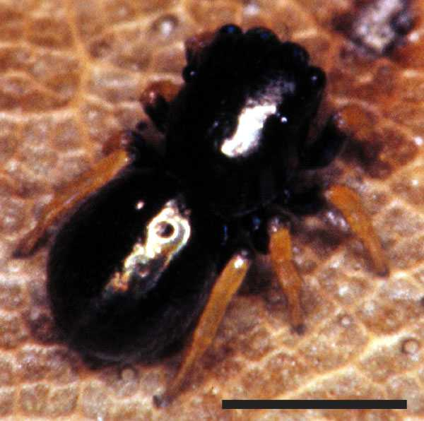 Female Chalcoscirtus diminutus jumping spider from Prairie Creek, Alachua County, Florida, USA